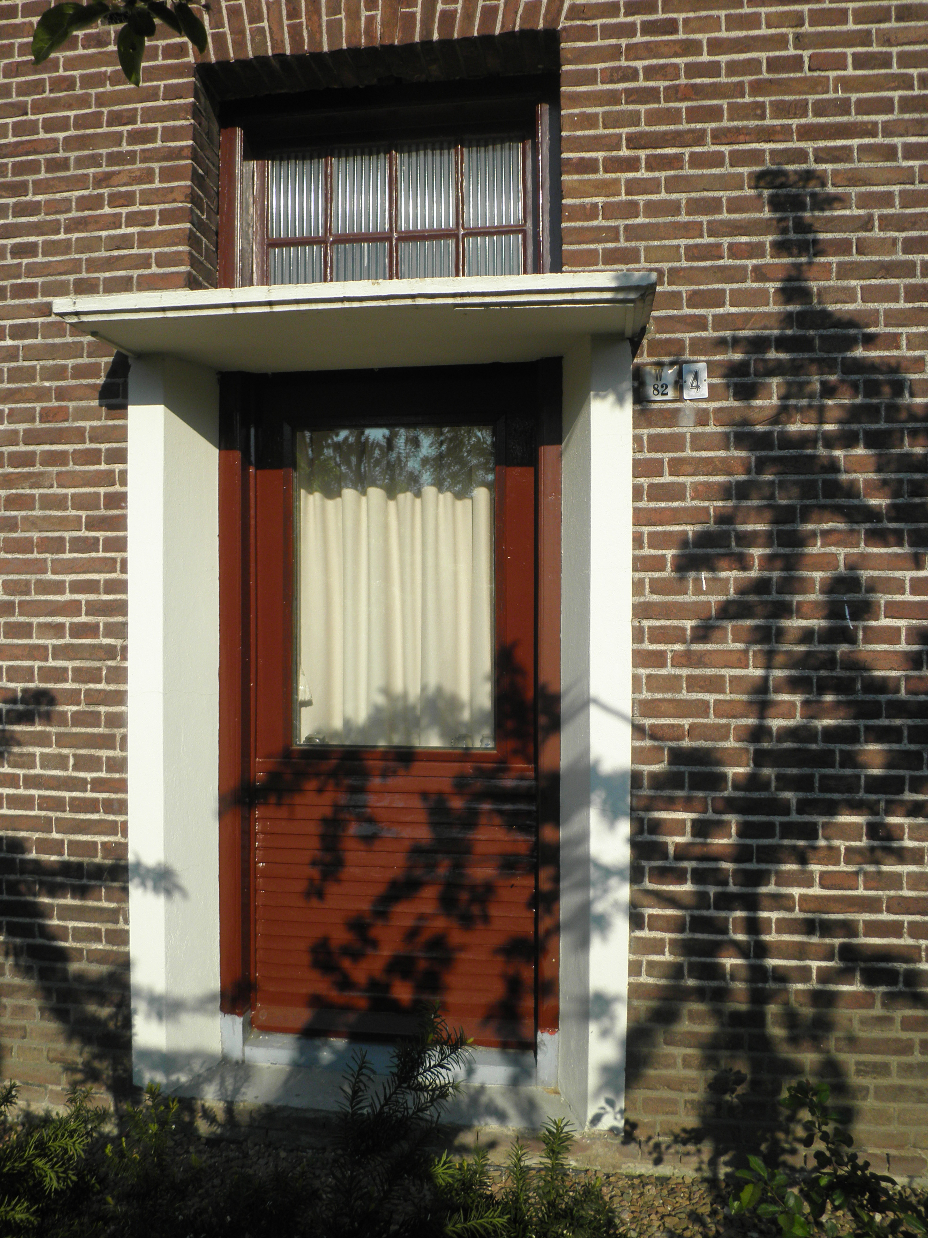 Former front door of house showing signs with both the present number 4 in street and the historical number W 82 in Weteringen neighbourhood